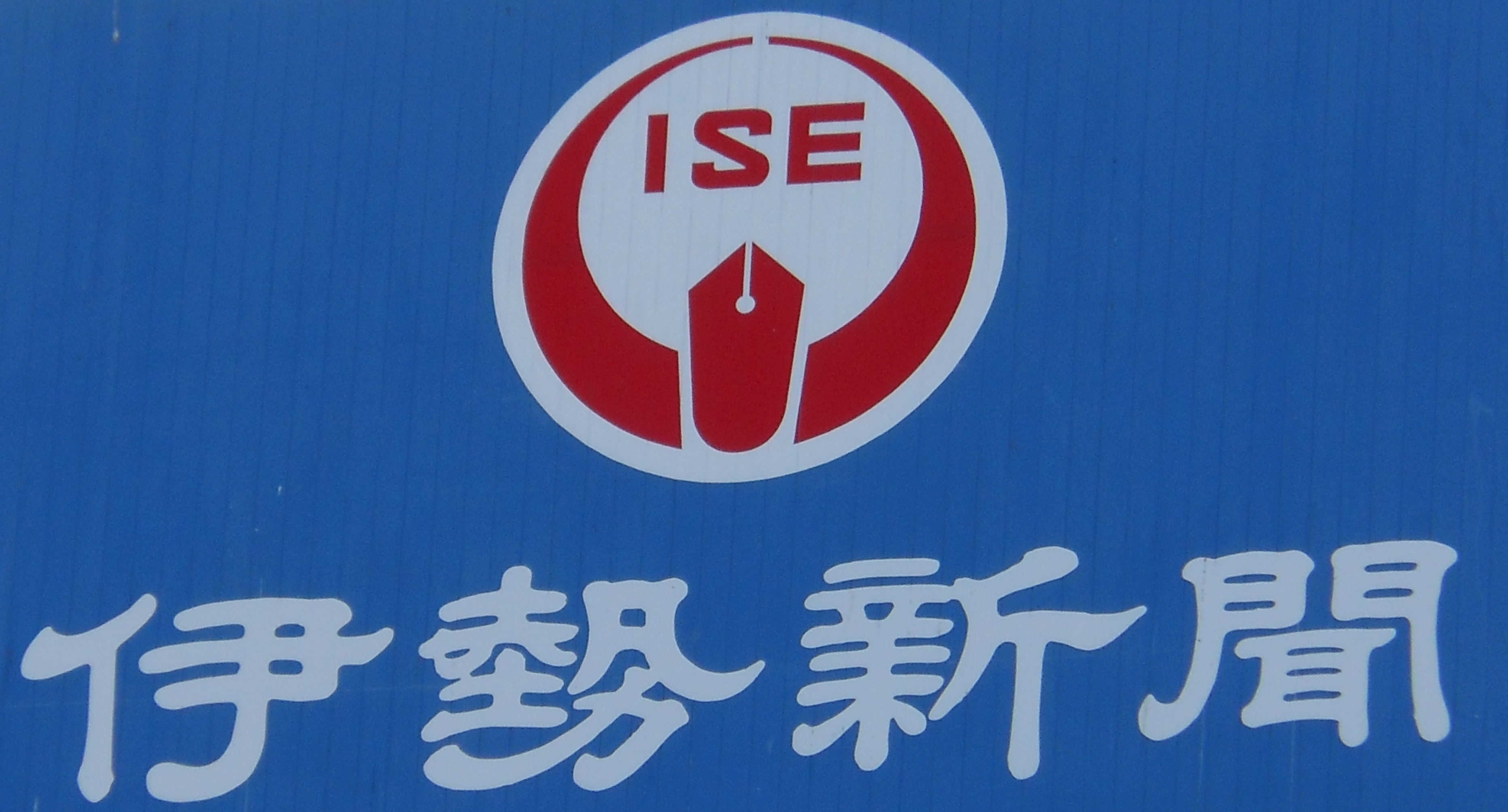 This is the logo of Ise Newspaper. This was taken at Iseshima Directorate General.